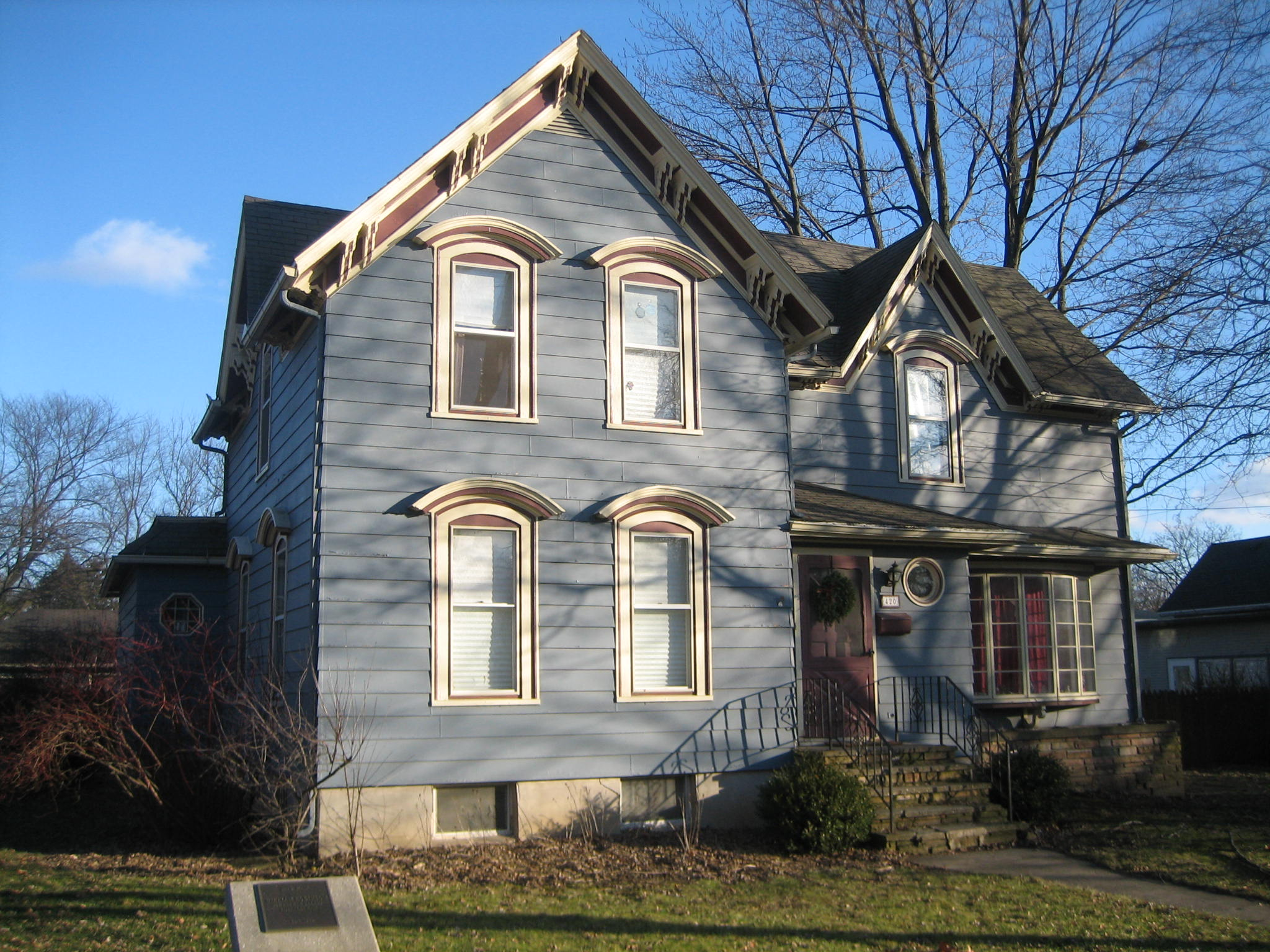 420 S. Main St., William Robinson House, Sycamore, Illinois. Sycamore Historic District, National Register of Historic Places.